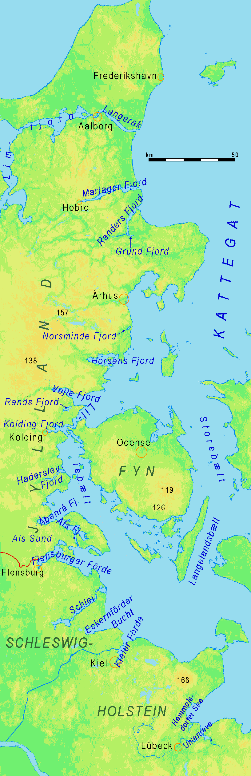 Eastern coast of the Cimbrian Peninsula: Fjords of Schleswig-Holstein and eastern Jylland. All land shown on this map is located less than 200 meters above sea level.